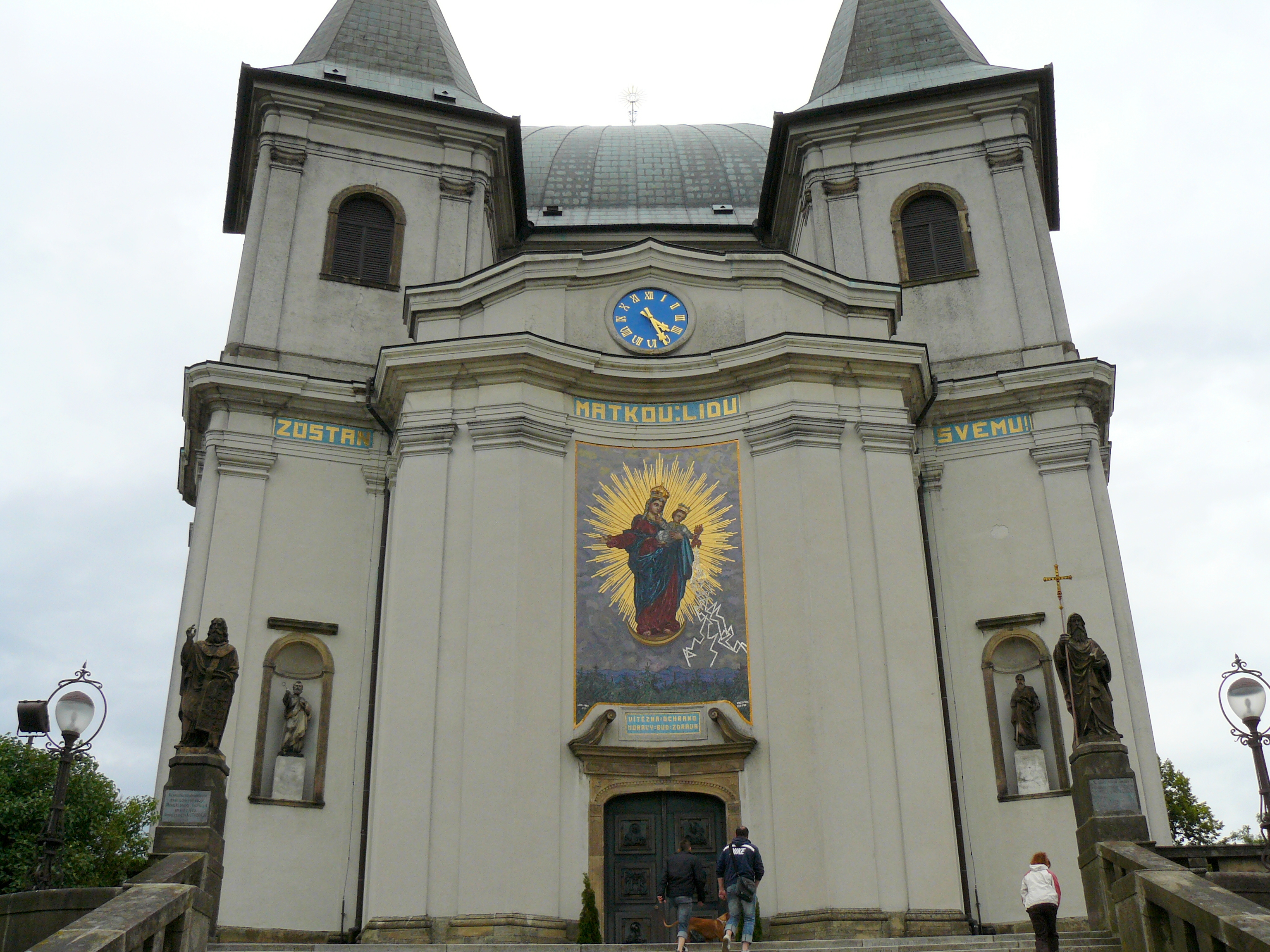 Church of the Assumption of the Virgin Mary, Hostýn, view from the front of the Church steps